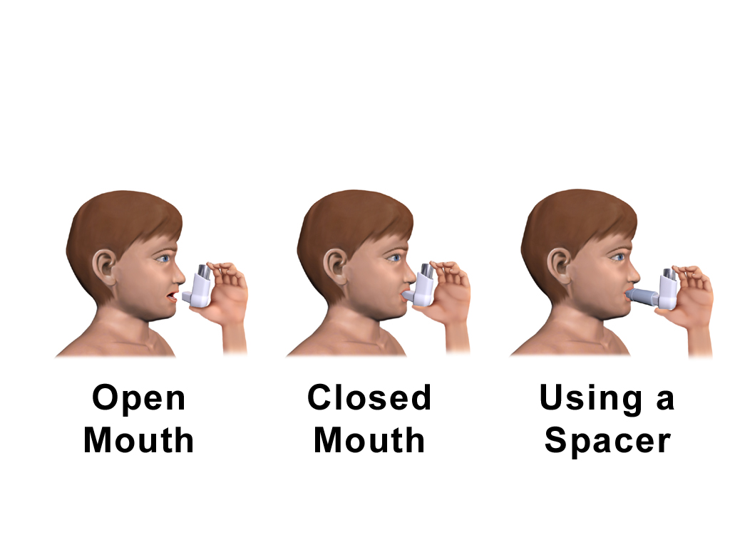 A medical illustration depicting a metered-dose inhaler for a child.